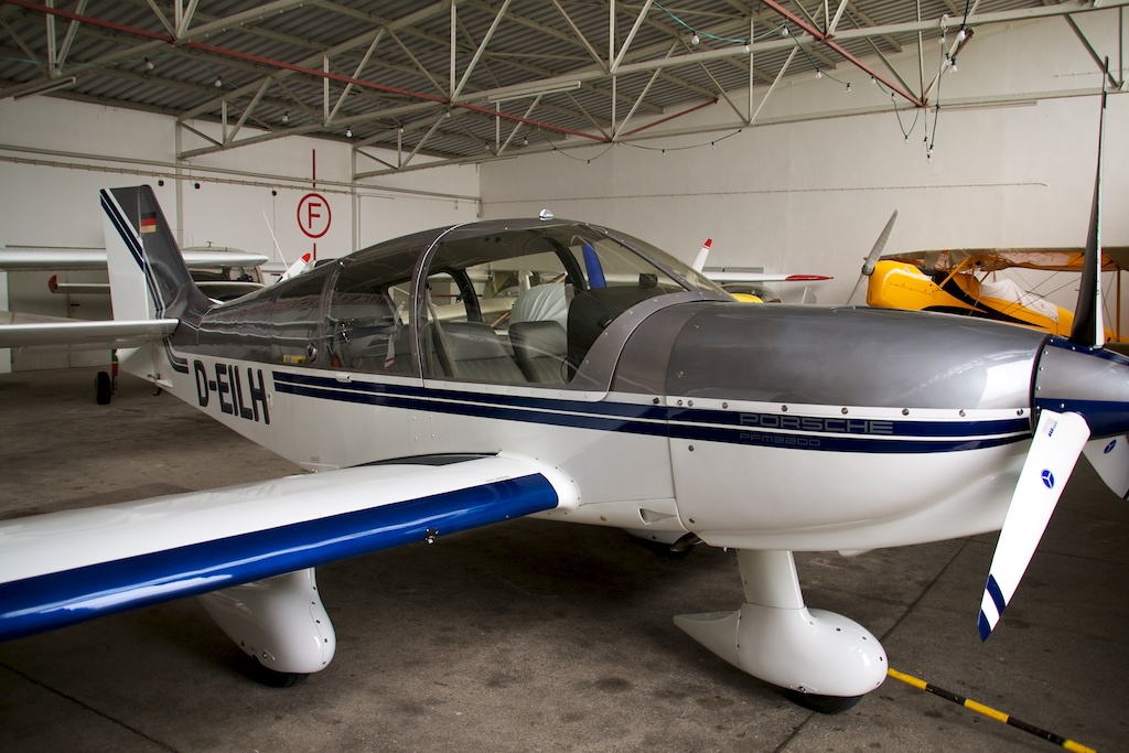 Robin DR-400 Porsche